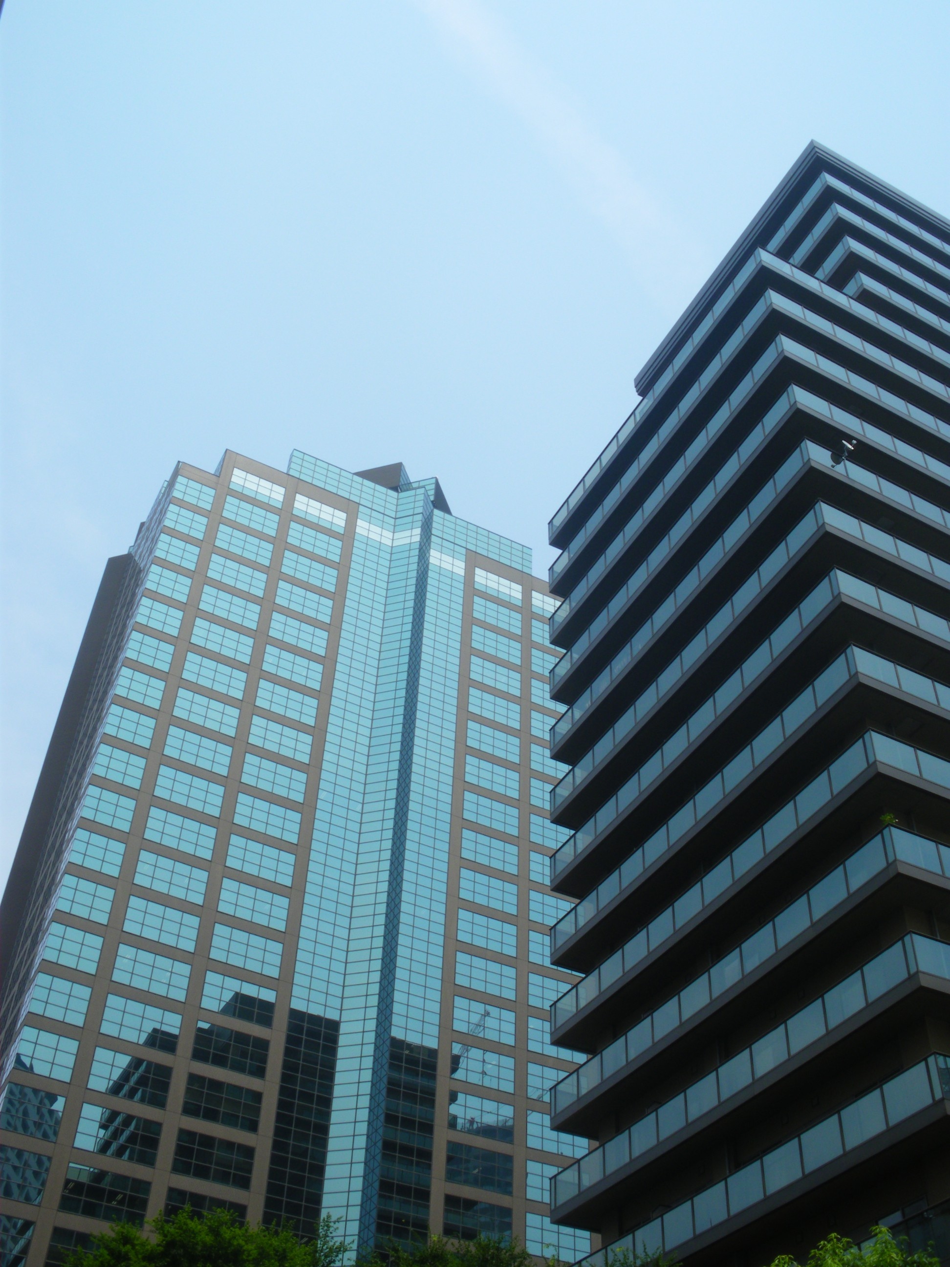 A photo of Nishishinjuku Mitsui Building(left) and Nishishinjuku Park Side Tower(right),Shinjuku-ku,Tokyo,Japan.